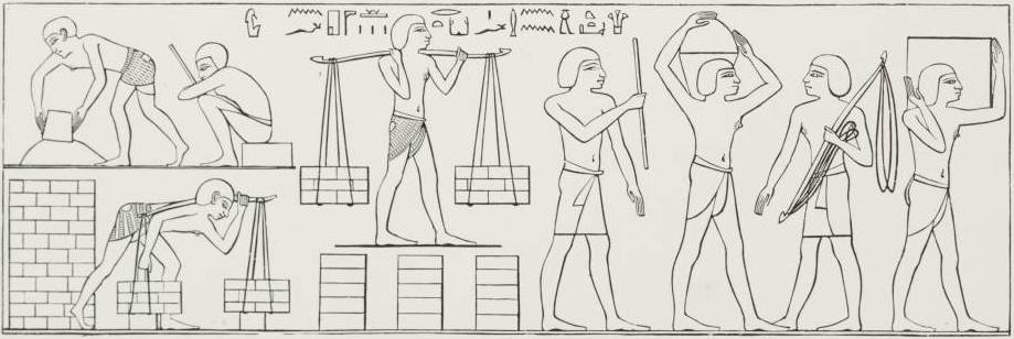 FORCED LABOURERS OF THE SEMITIC RACE MAKING AND CARRYING BRICKS. (Tomb of Rekhmara at Thebes.)